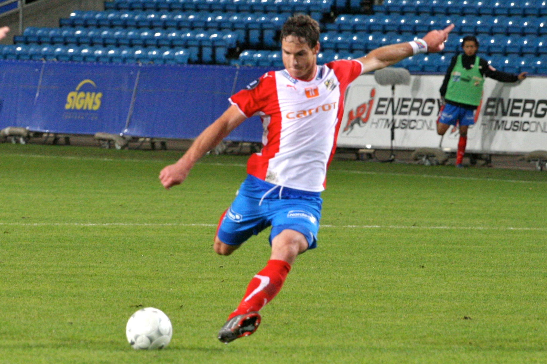 Oliver Risser, FC Lyn Oslo footballer.